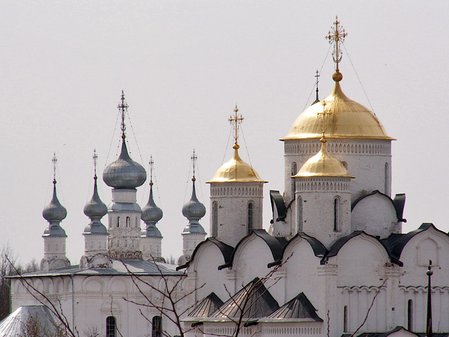 Pokrovskij monastery in Suzdal